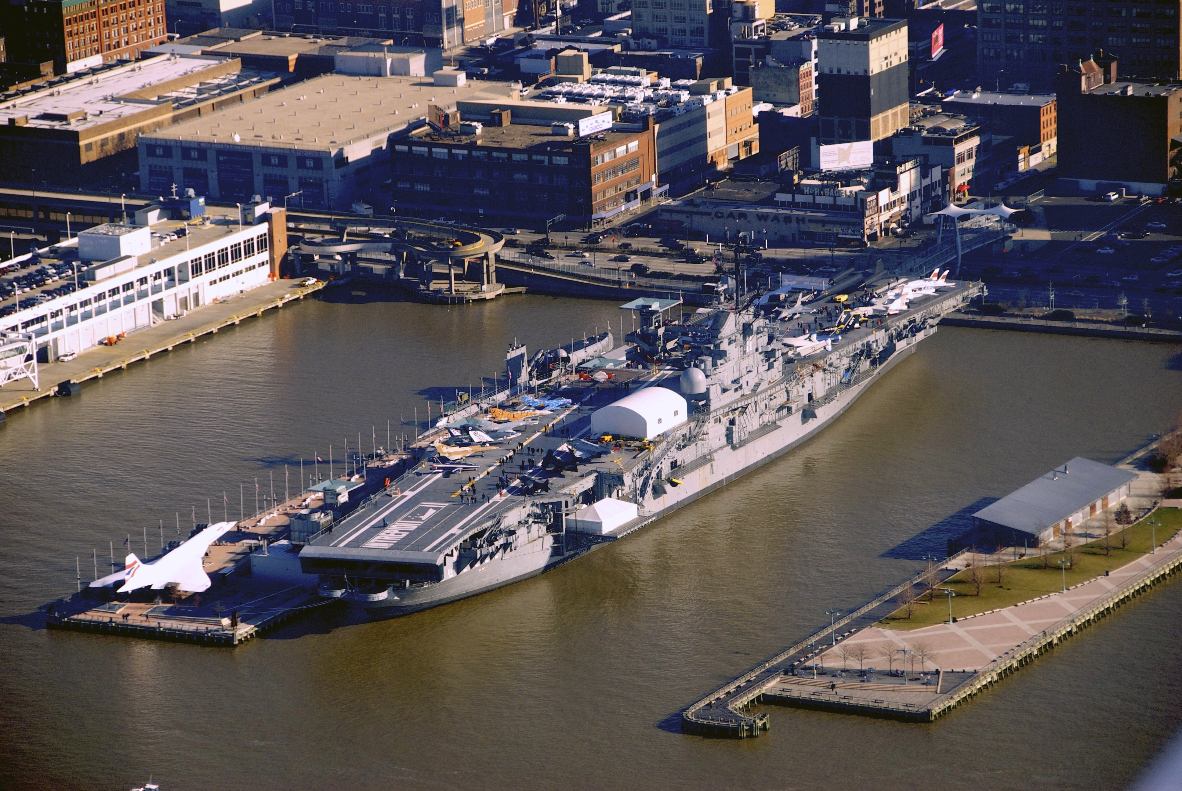 An aerial view of the USS Intrepid, USS Intrepid (CV/CVA/CVS-11). Photo taken from 1100 feet over the Hudson River.